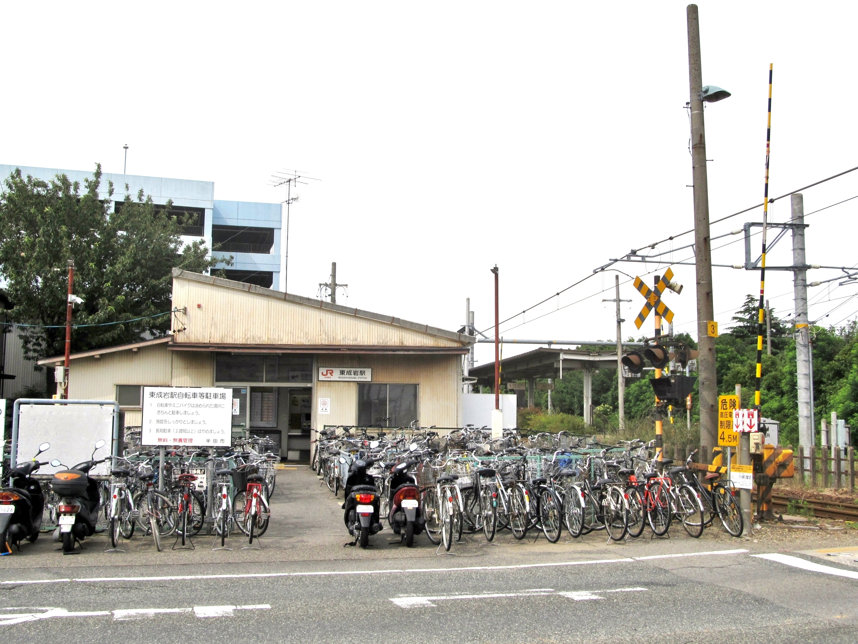 Central Japan Railway Taketoyo Line Higashi-narawa Station Building